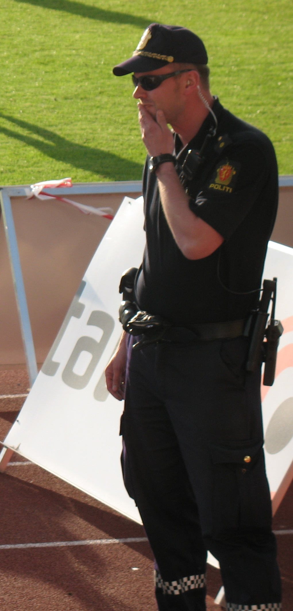 Police officer in Bærum, Norway.